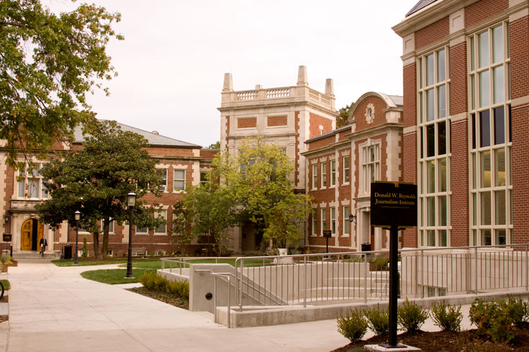 Neff Hall, the J-School arch and Walter Williams Hall as viewed from the north side of Francis Quadrangle at the Missouri School of Journalism in Columbia, Mo.